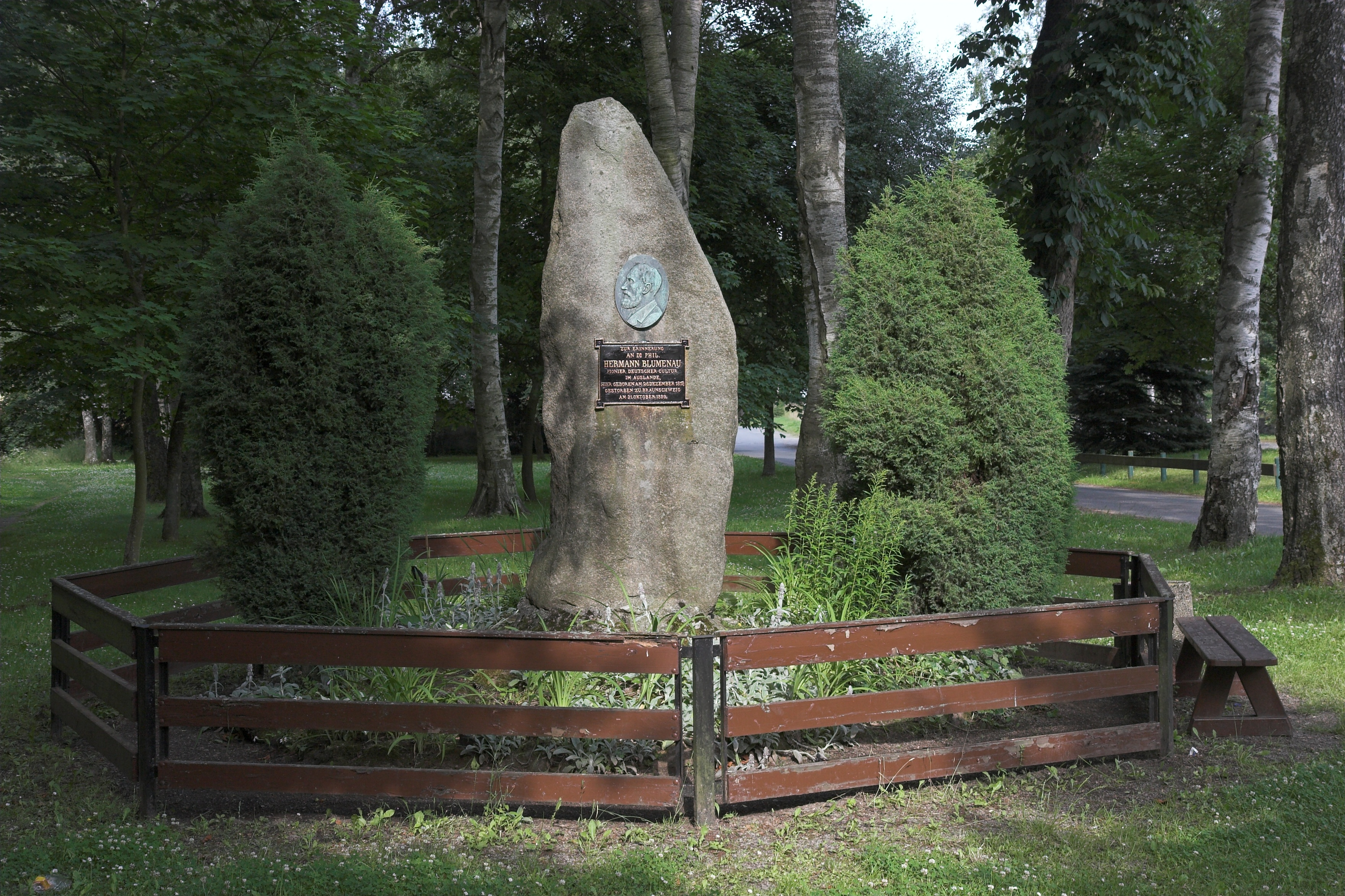 Monument for Hermann Blumenau in Hasselfelde